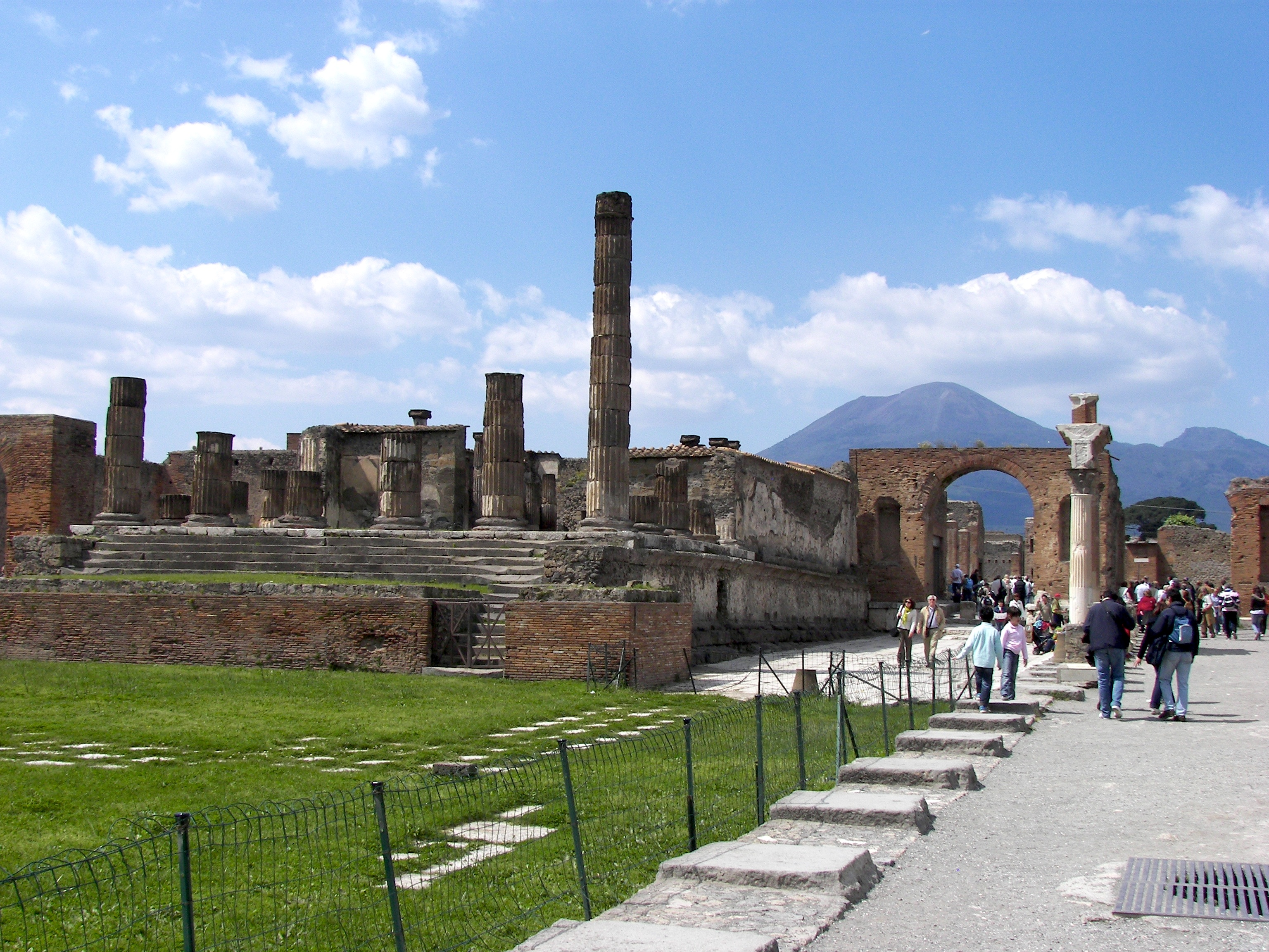 Forum in Pompeii with the Temple of Jupiter in the center-left and Mount Vesuvius in the background.